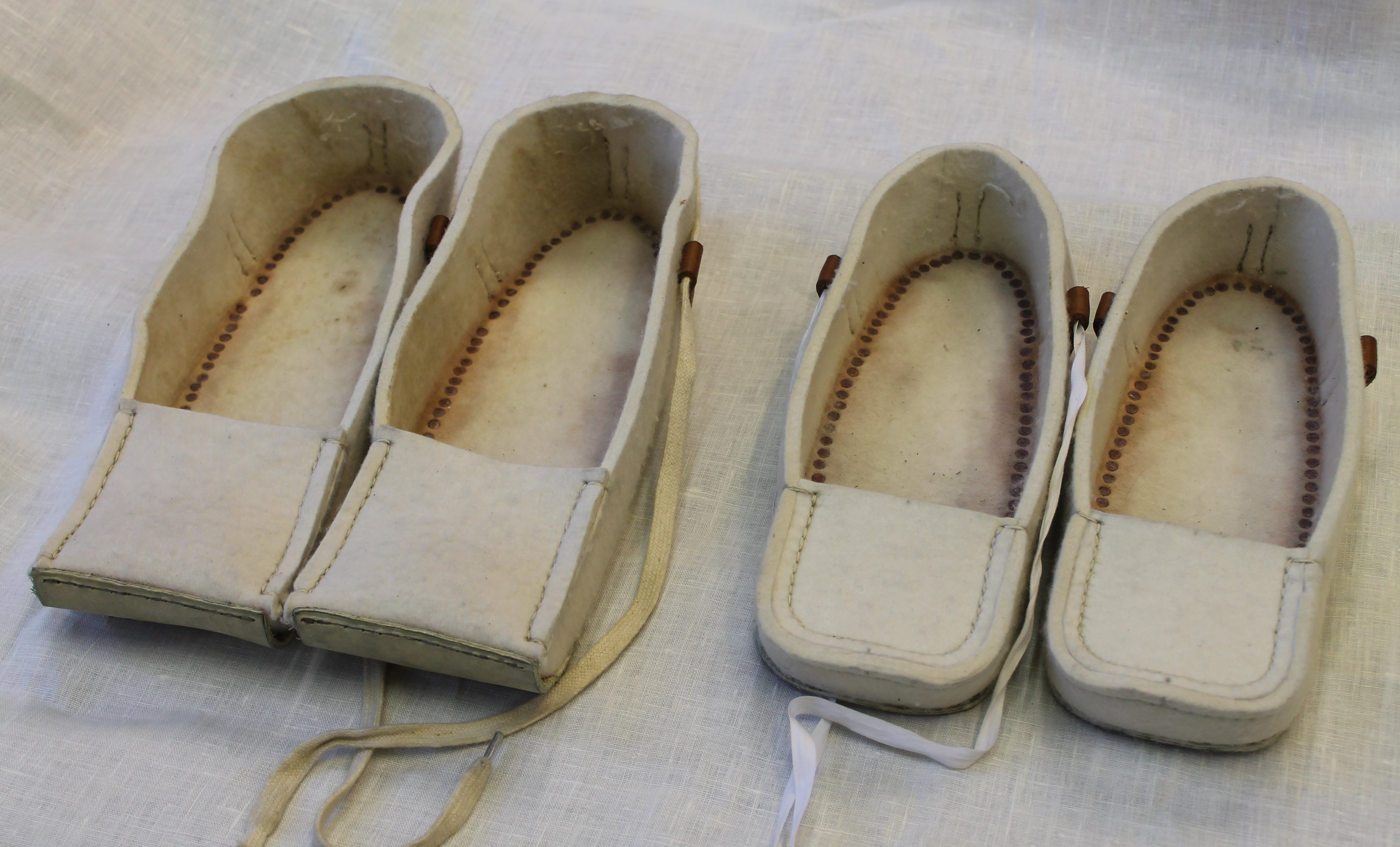 Replica of terracotta warriors shoes in China developed by Petr Hlaváček and Václav Gřešák, Zlín, Czech Republic